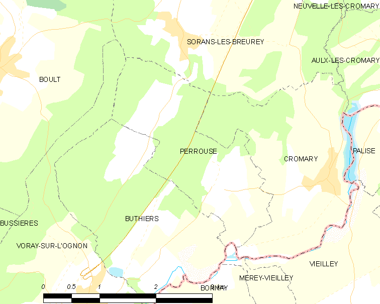 Map of French municipality